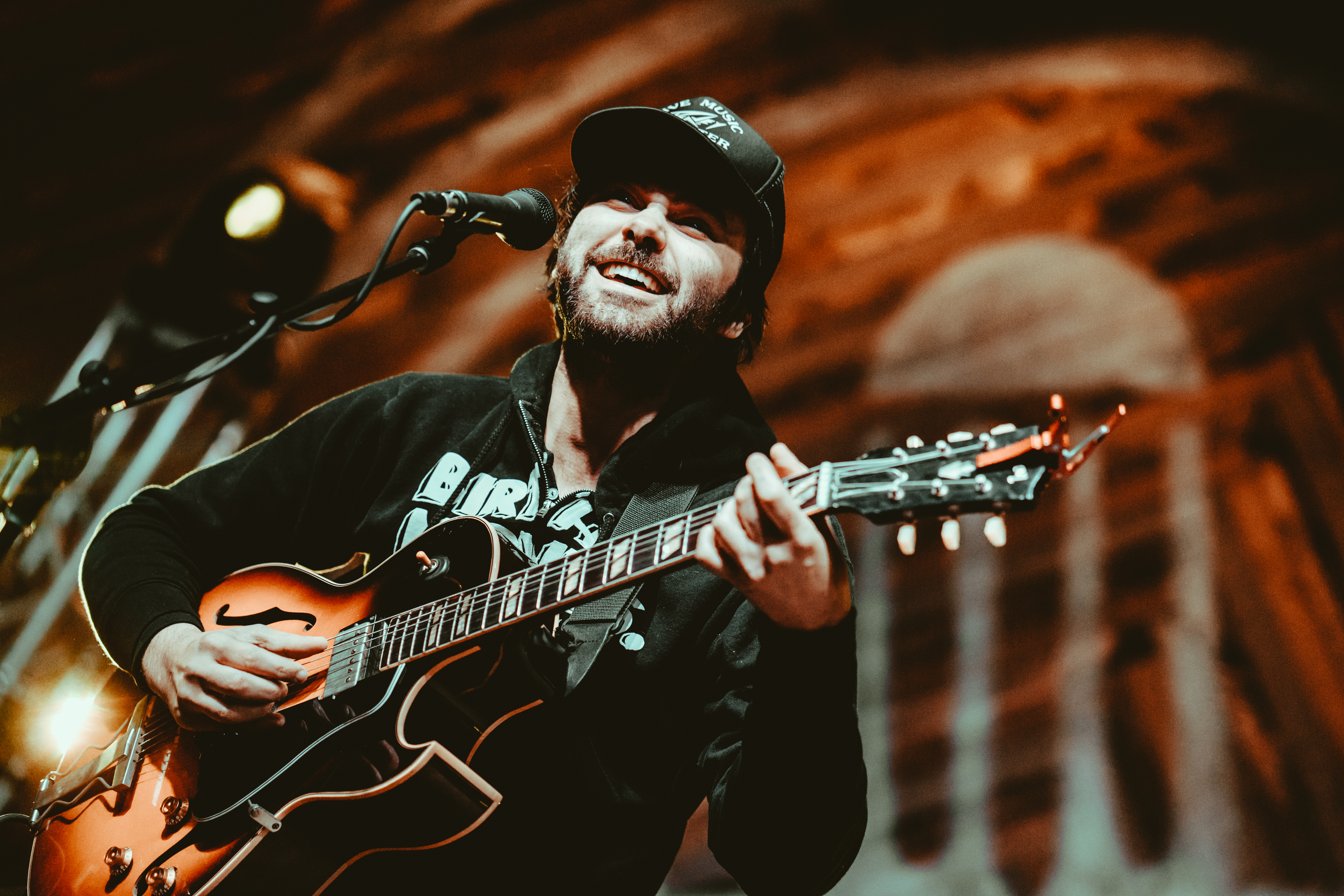 Shakey Graves performing with The Texas Gentlemen at The Rustic in San Antonio 12.9.17